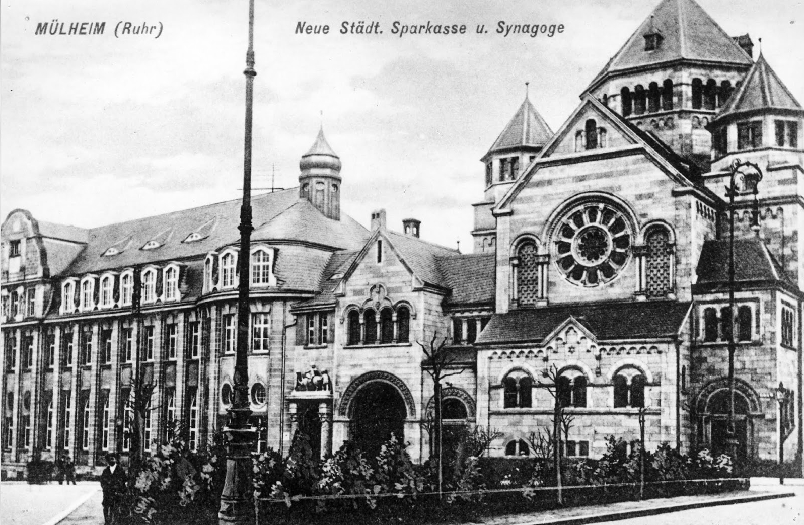 Synagogue pf Mülheim a-d-R built in 1907 and destroyed by nazis during Kristalnacht in 1938 - and the Sparkasse.